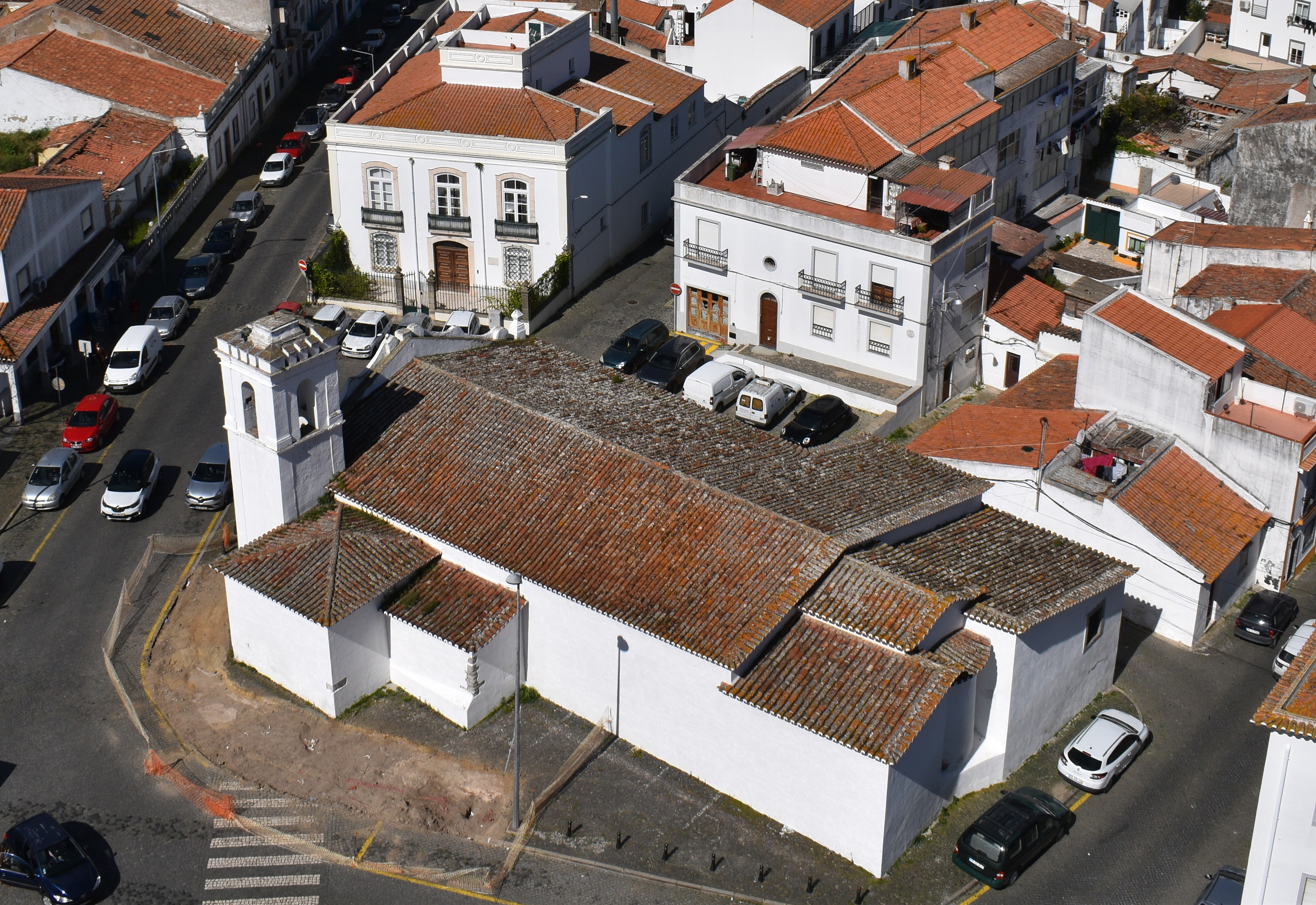 Photo of Santo Amaro Church in Beja, Beja District, Portugal. Photograph taken from the castle of Beja.